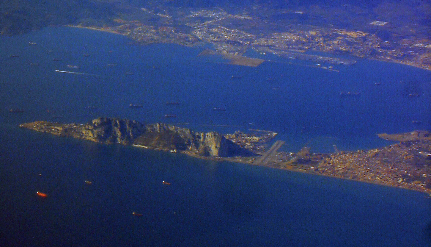 Aerial view of Gibraltar.